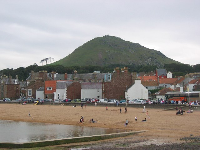 Beach, North Berwick.